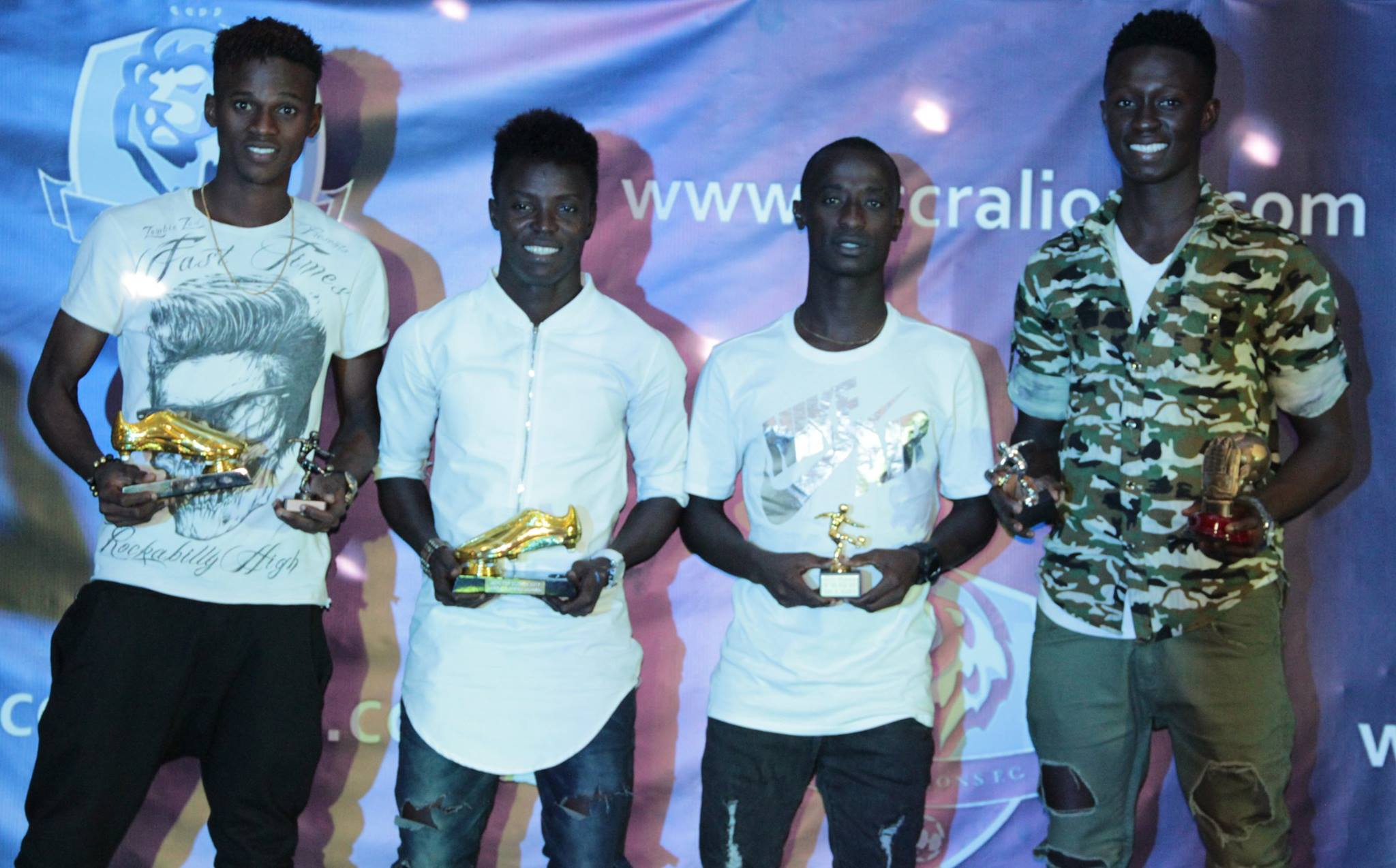 Accra Lions' outstanding players of 2017